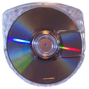 Multimedia Recovery's UMD Replacement Case for broken Sony PSP games and movies.